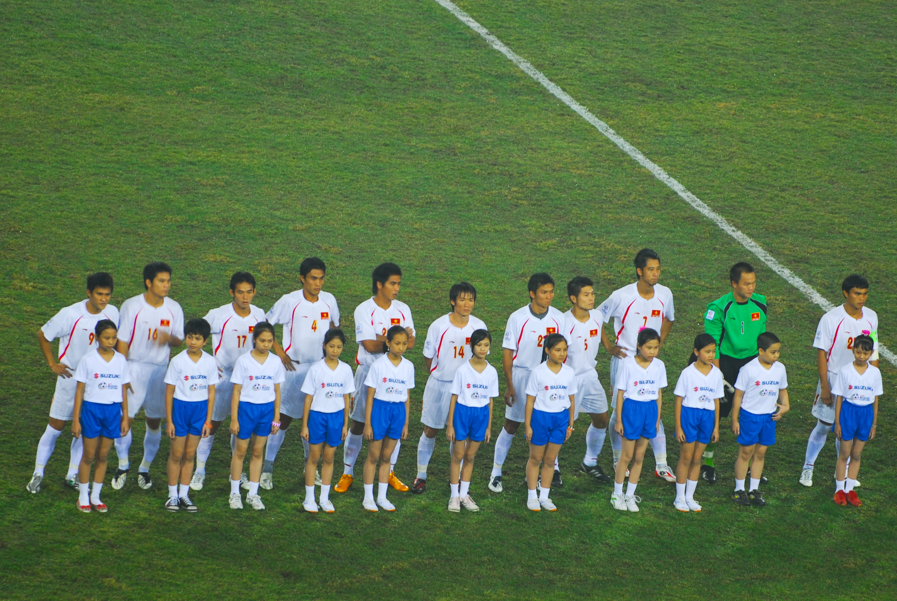 Vietnam football team saluting before the match with Thailand in the second-tier AFF Cup 2008 final, December 28, 2008, at My Dinh National Stadium